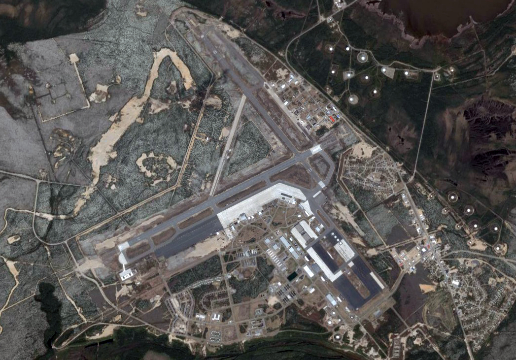 Canadian Forces Base Goose Bay Part of NOAA's aeronautical survey program. from: [1]